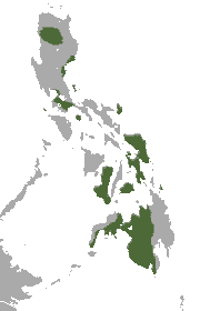 Philippine Dawn Bat (Eonycteris robusta) range